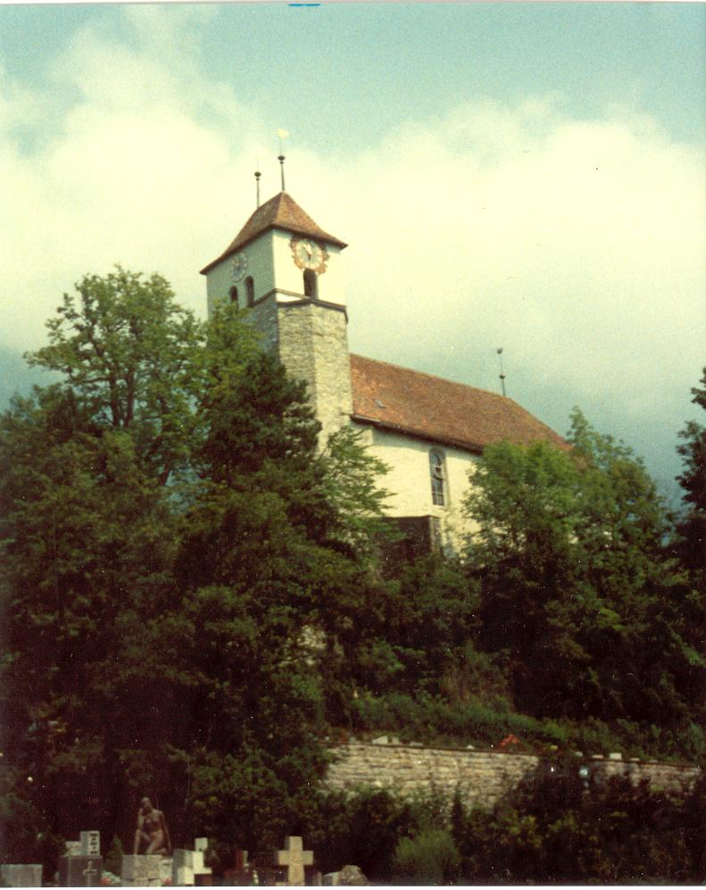 Ringgenberg Church near Interlaken Switzerland (From Englsh Wiki)